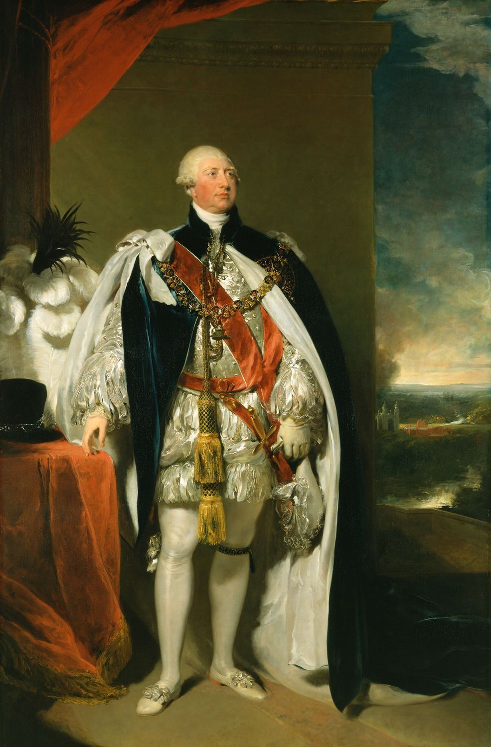 This is a repetition with modifications of a work of 1792 now in the Herbert Art Gallery